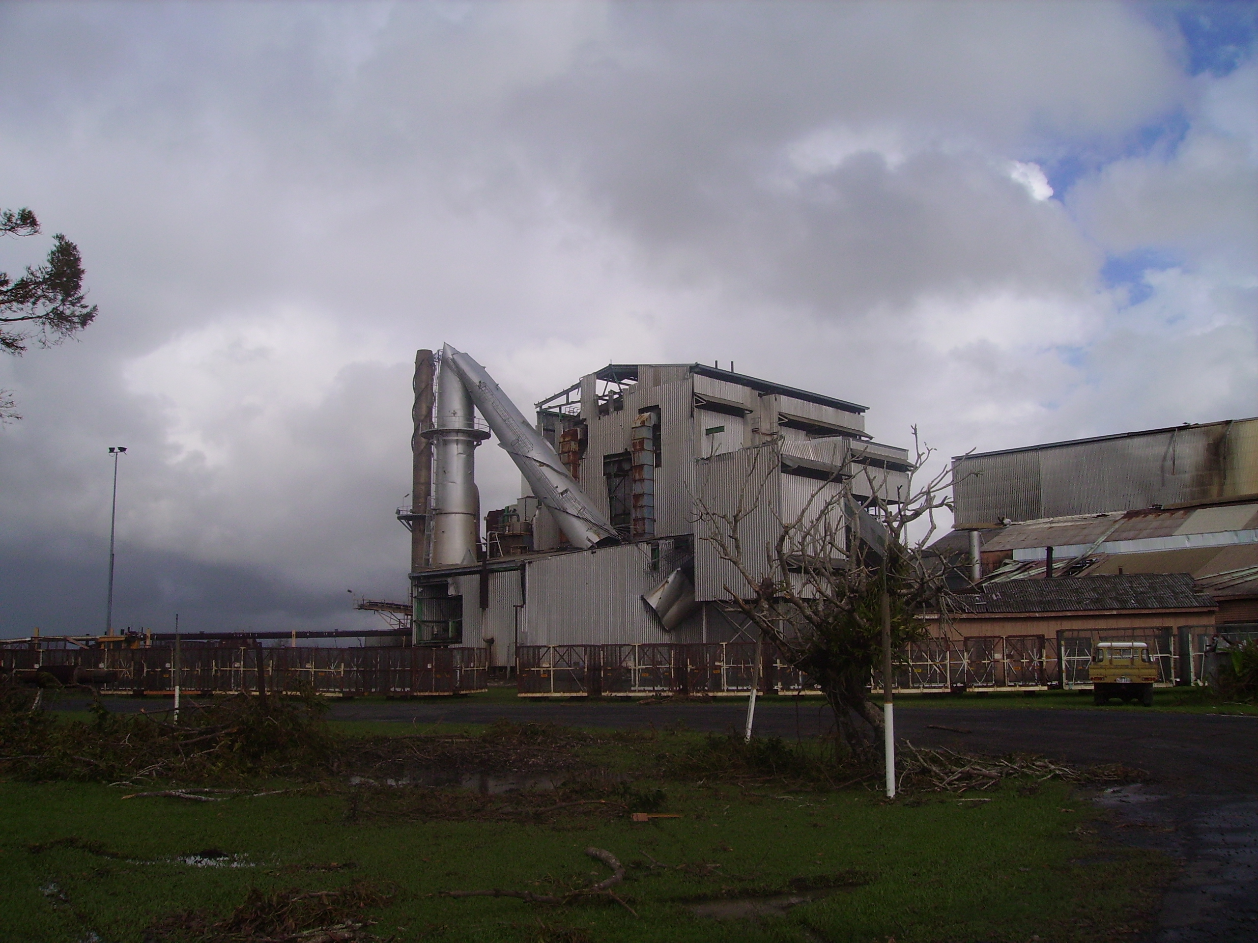 This is my own picture taken during the cyclone aftermath